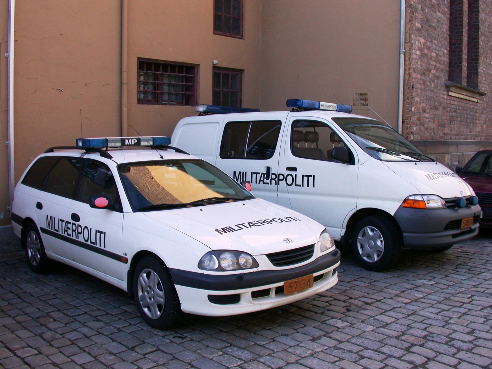 Norway military police cars, old livery